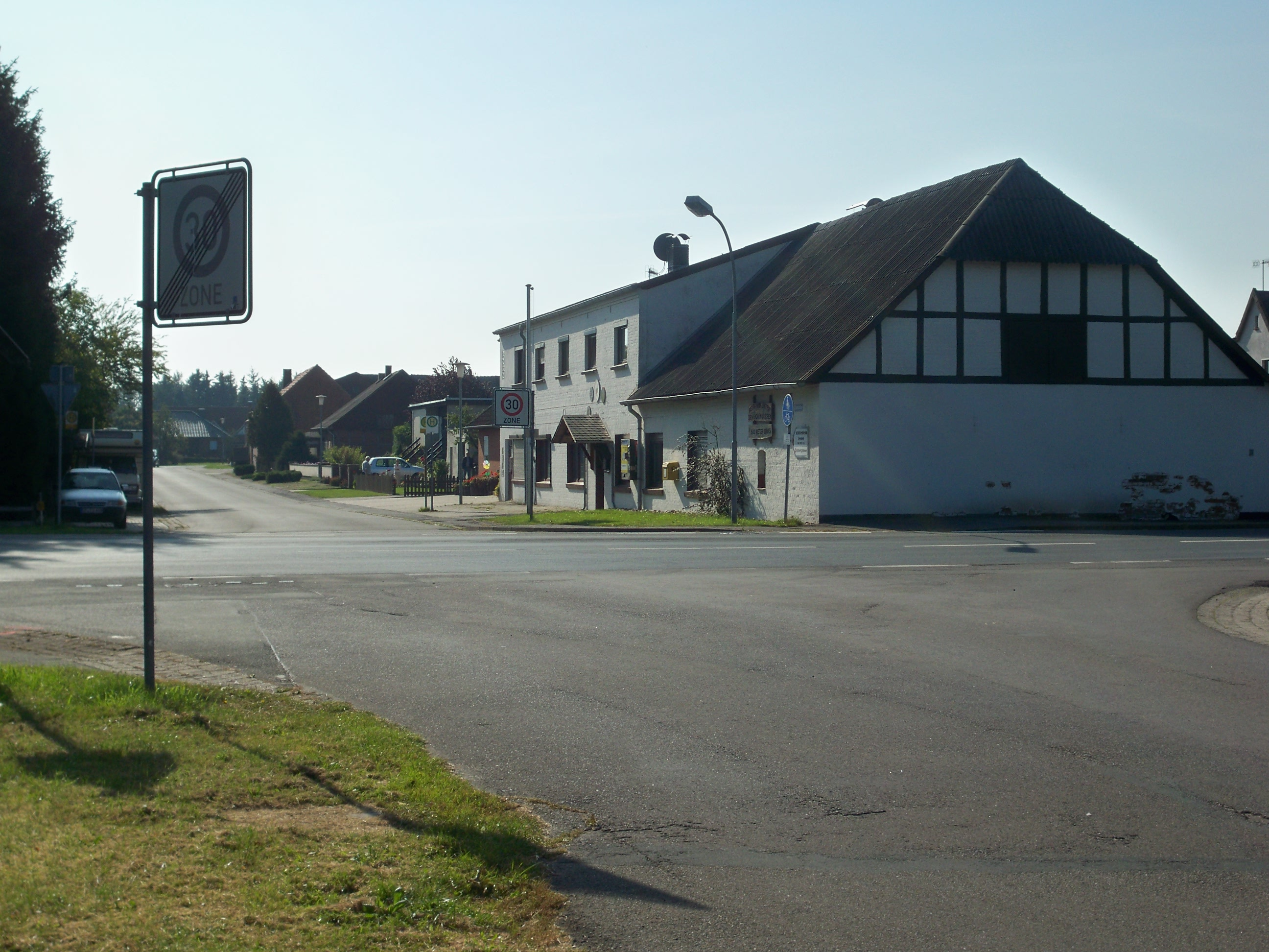 Ehra-Lessien, Lower Saxony, Lessien, main crossing